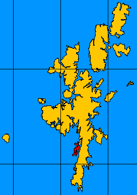 Adaption of Shetland.png highlighting Burra